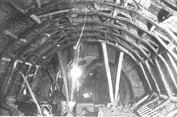 Shimonoseki side construction site of Kyushu-bound track of Kammon railway tunnel